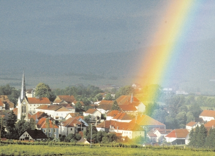 village d'Orchamps-Vennes